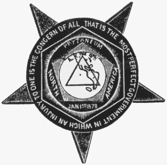 Knights of Labor Pentagram (Logo)